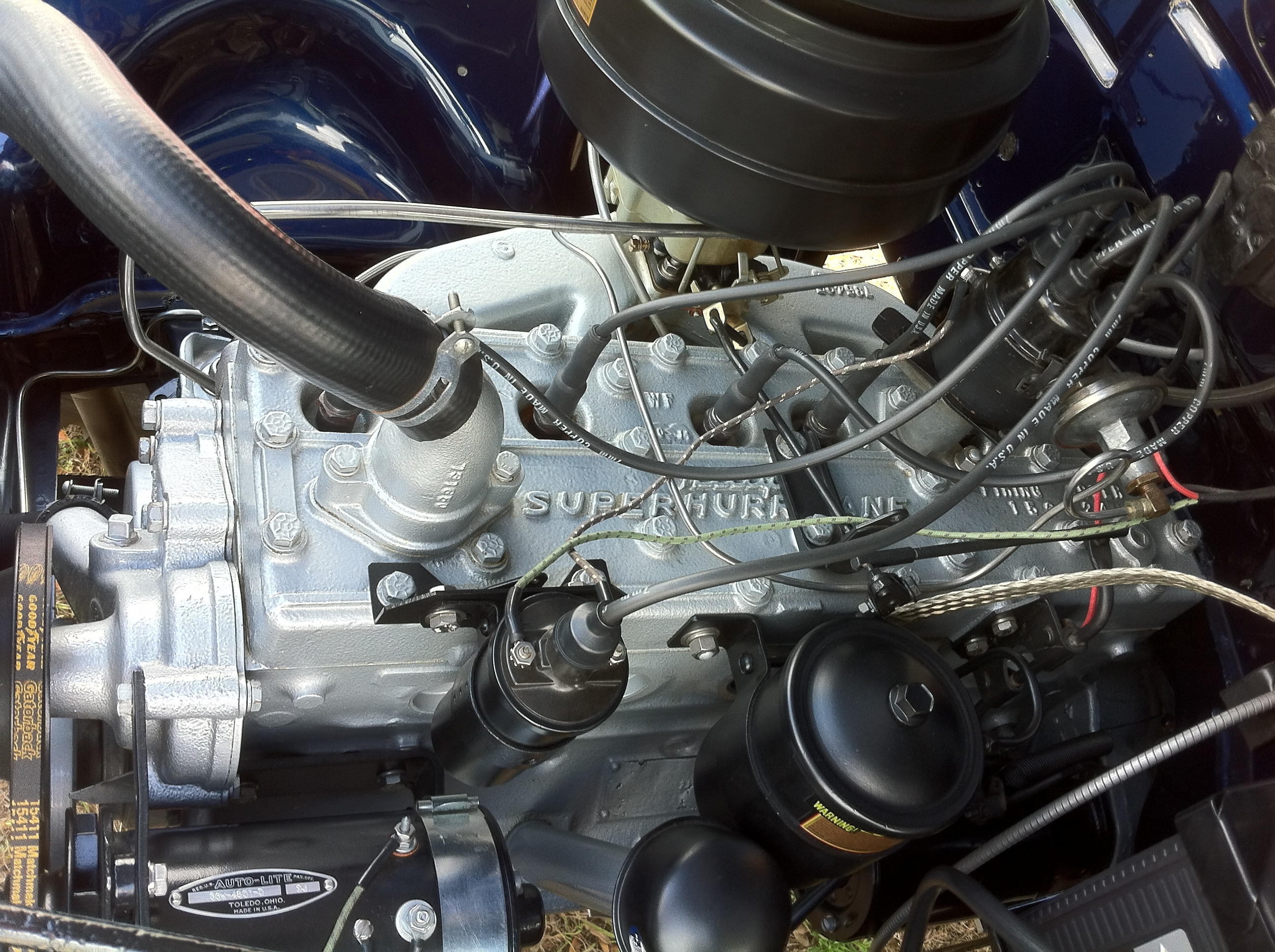 1955 Jeep Willys Utility Wagon. An all-steel body finished in the factory two-tone design equipped with four-wheel-drive and powered by the Super Hurricane engine. Picture taken at the 2013 Antique Automobile Club of America (AACA) meet in Lakeland, Florida, USA.